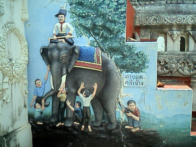 ตาบอดคลำช้าง -- Illustrated Proverb: Blind men and the Elephant